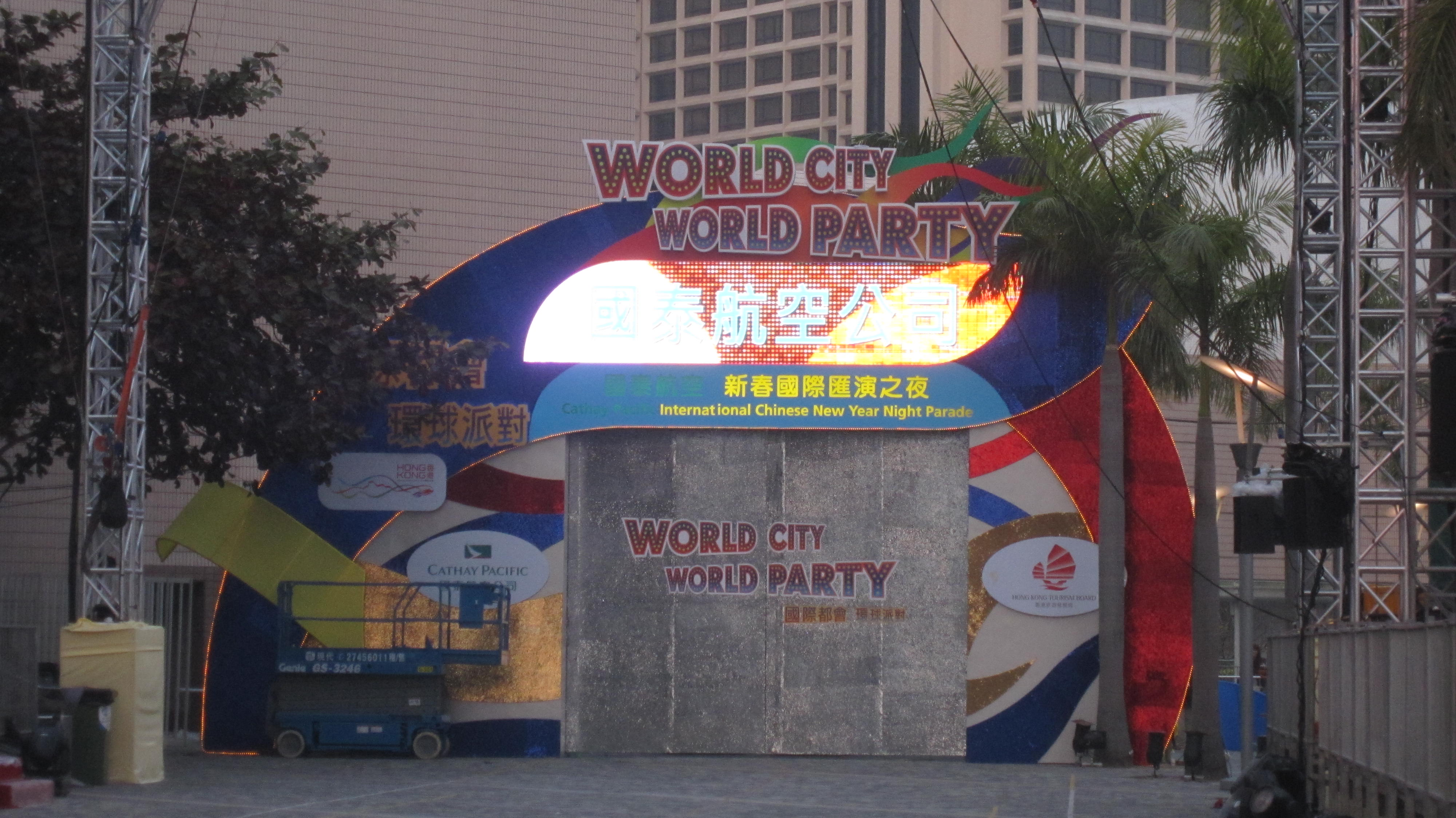 Lunar New Year parade in Hong Kong